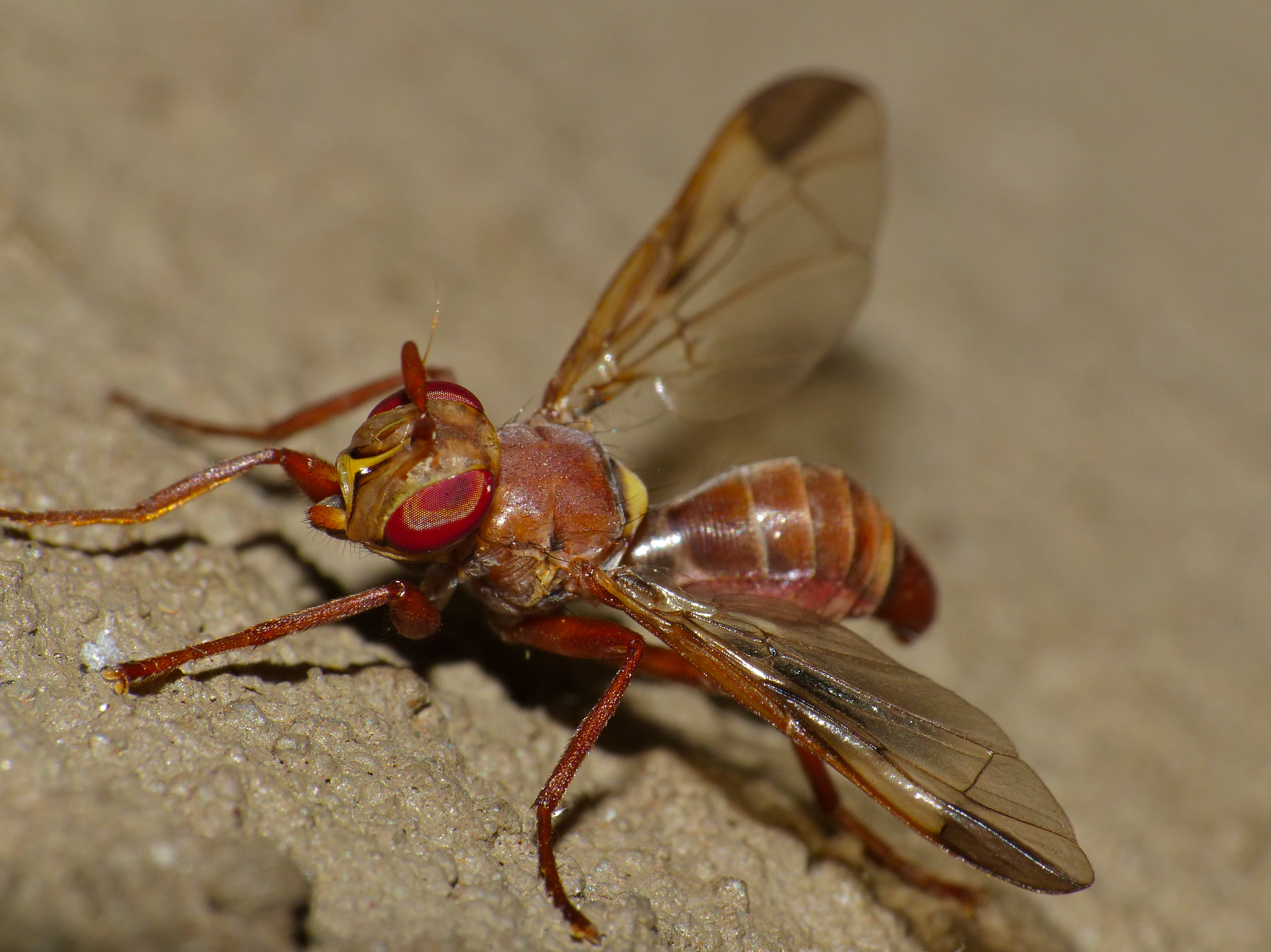 Dacops abdominalis, Safari Tent N°7, Lower Sabie Camp, Kruger NP, SOUTH AFRICA